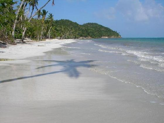 Playa Manzanillo (Manzanillo Beach) lies on on the southeast coast of Isla de Providencia or Old Providence. It is a relatively remote beach on a relatively remote island. Like its larger (and much more populated) sister island San Andres, Providencia is closer to Nicaragua than the country it is a part of (Colombia). Unfortunately I am not sure where my original source file is; this is a relatively low res version I uploaded elsewhere on the web some years ago.